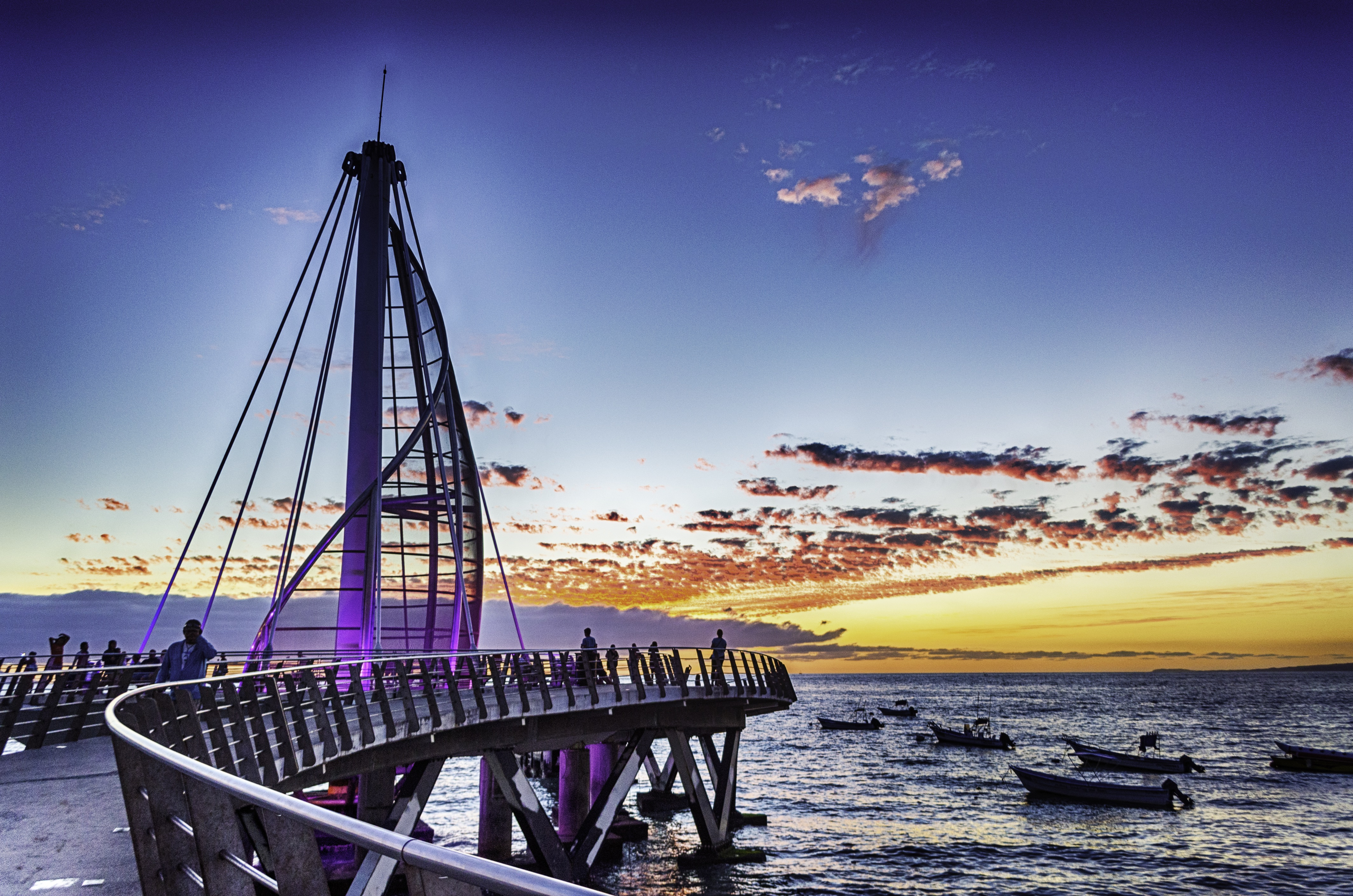 Puerto Vallarta Mexico Pier Photography by Daniel Cordero